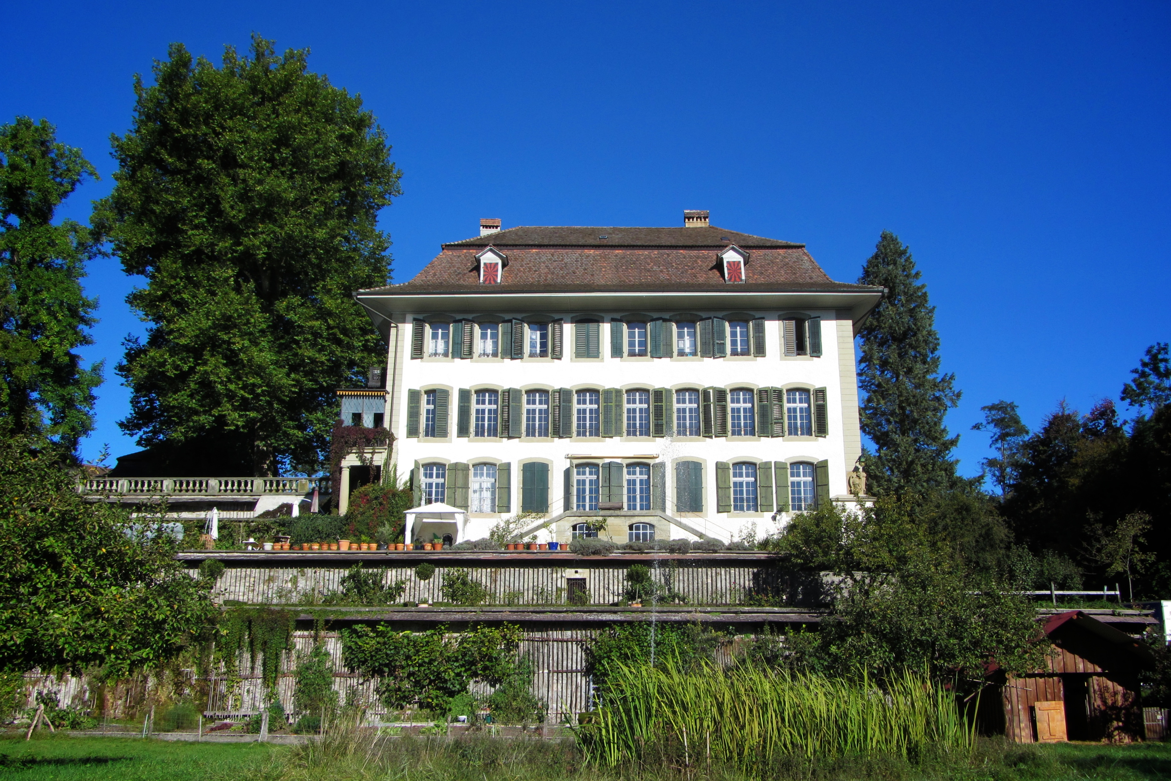 Schloss Reichenbach, Zollikofen, Switzerland